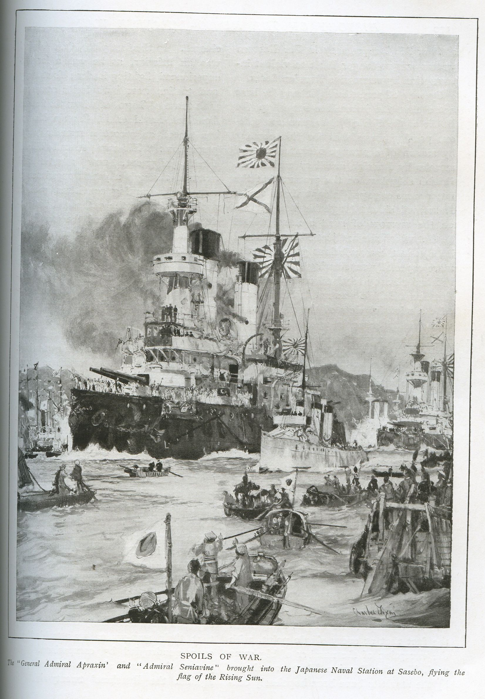 The General Admiral Apraxin and Admiral Seniavine brought into the Japanese Naval Station at Sasebo, flying the flag of the Rising Sun.